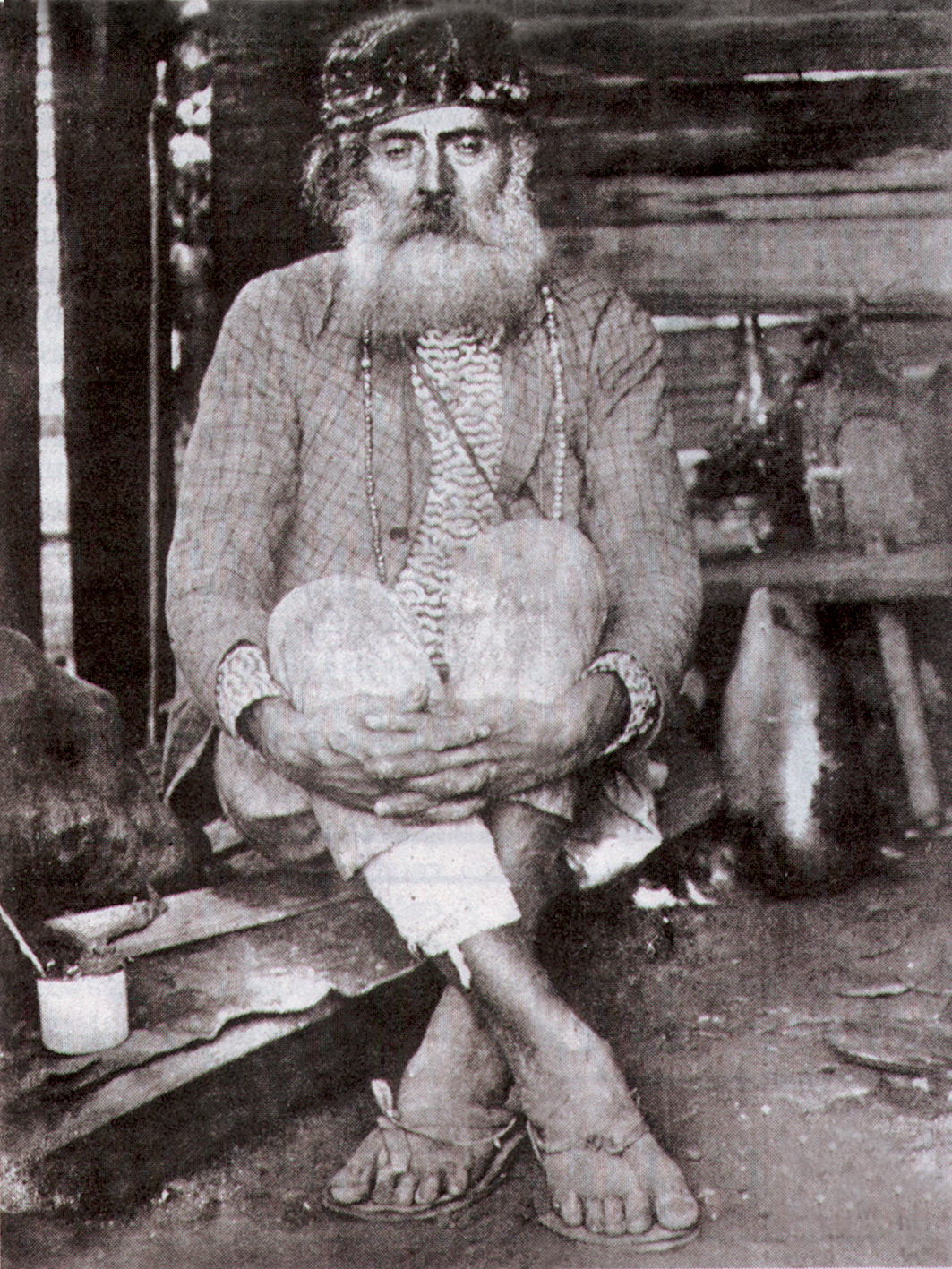 The Syrian monk João Maria de Jesus (d. 1908), photographed in Ponta Grossa